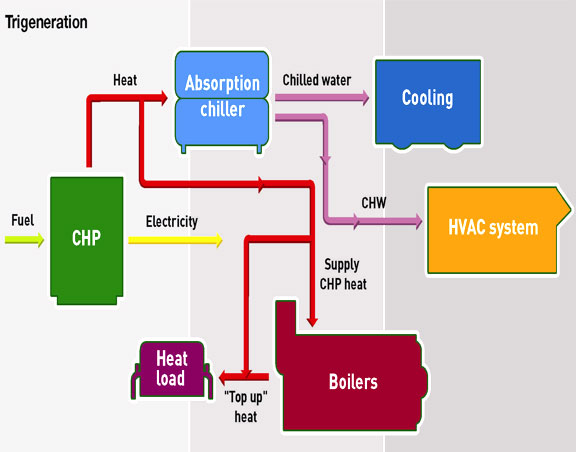 Trigeneration cycle scheme of a plant producing electricity, heat, and cold